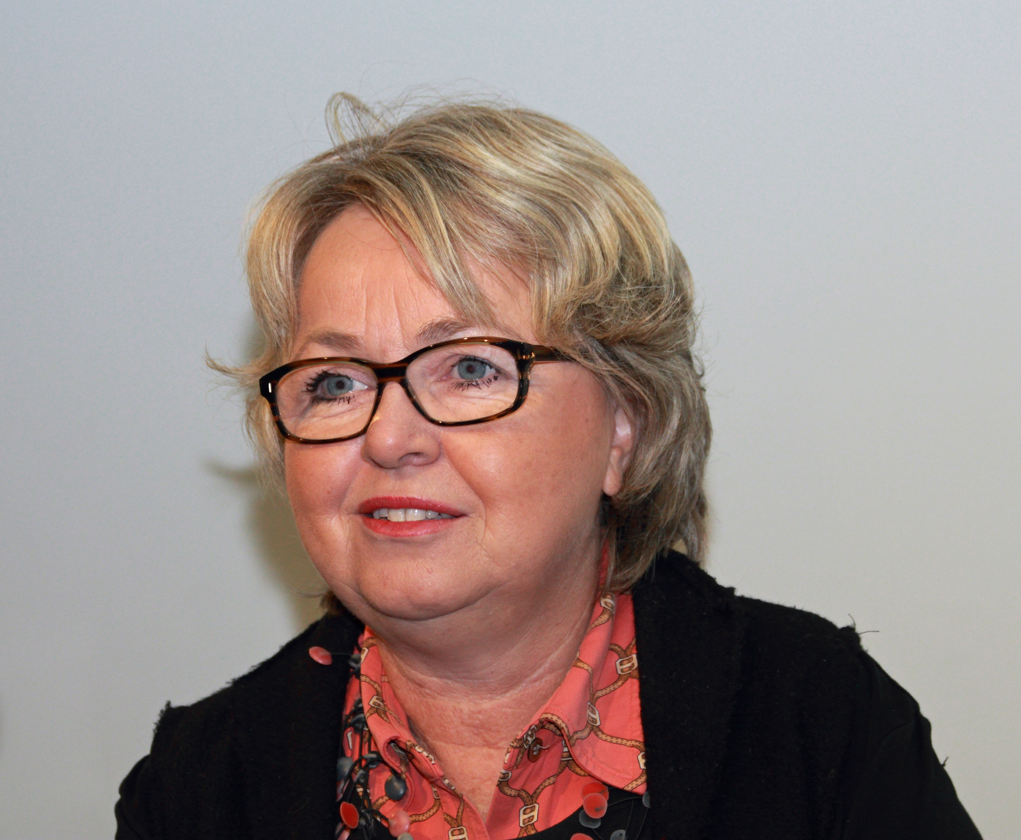 Hanni Hüsch (* 1957) is a German TV journalist.